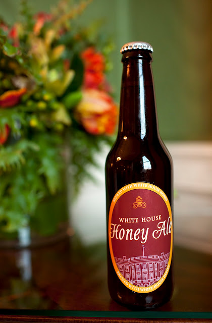 This is a Whitehouse photo of White House Honey Ale, taken by Pete Souza.